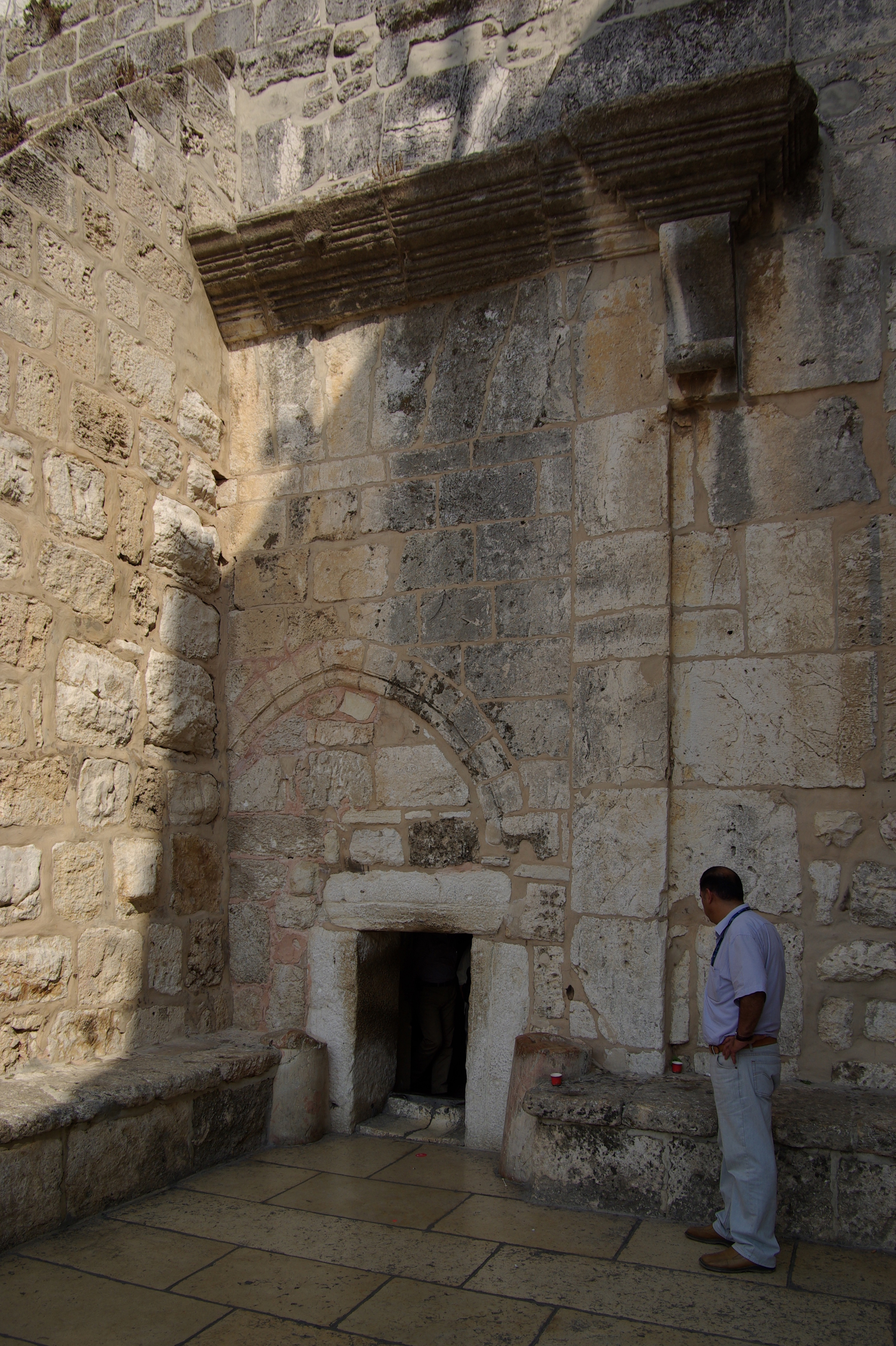 Bethlehem, Church of the Nativity